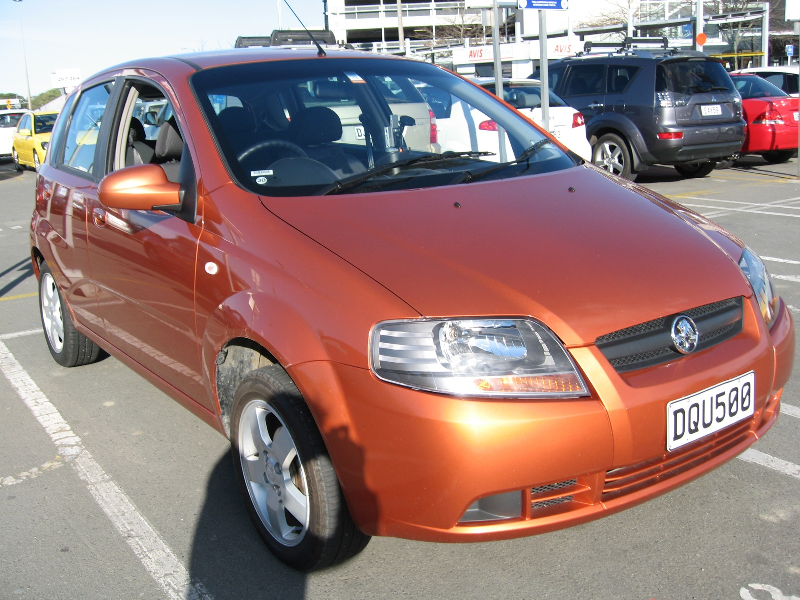 2006 Holden Barina (TK MY07) 5-door hatchback. Photographed in New Zealand. Vehicle registration enquiry resultsJurisdictionNew ZealandRegistrationDQU500Chassis codeKL3SF486E7B736018Engine codeF16D3787763KYear of manufacture2006